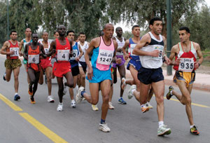 abdelkader el mouaziz